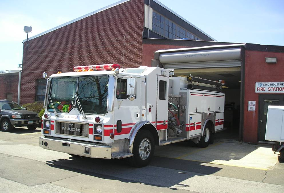 King Industries Fire Engine